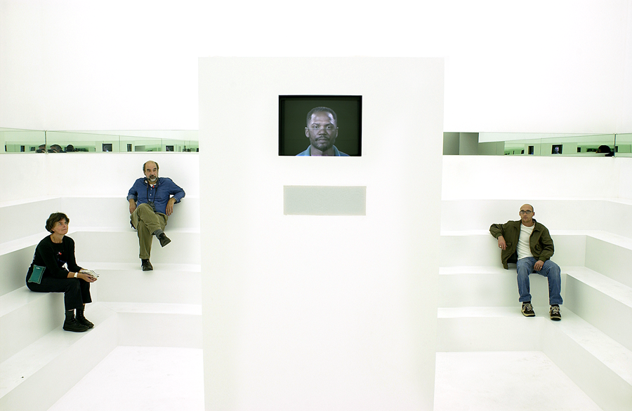 What It’s Like, What It Is #3; video installation: wood construction, mirrors, lighting, video discs, music soundtrack, the author is Adrian Piper.